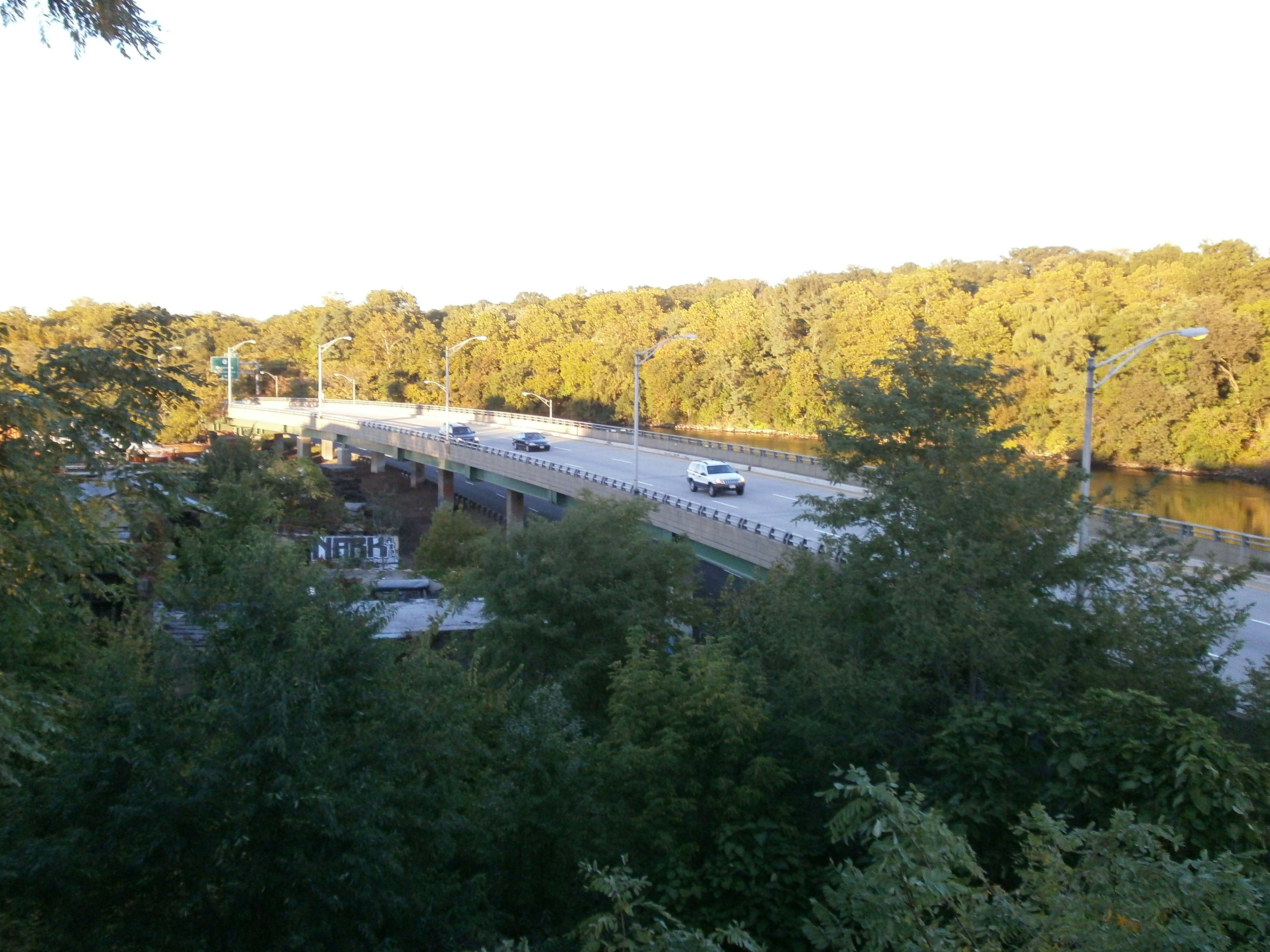 McCarter Highway Newark Route 21 along the Passaic River looking northeast to Kearny Riverbank Park